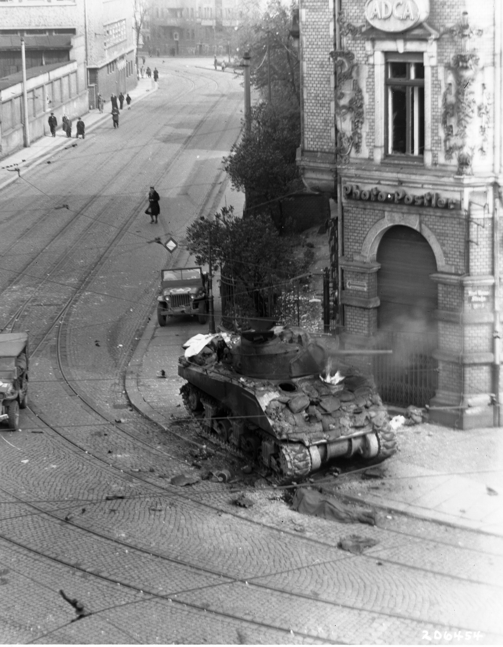 C 206454 - M4 tank of Sgt. George K. Cuthbert, Jr., Company C, 741st Tank Battalion, burns at the intersection of Karl Heine Str. and Zschochersche Str., Leipzig, Germany, 18 April 1945. The entire crew, Sgt. George K. Cuthbert, Jr., Cpl. Kenneth W. Nickel, Pfc. Charles Lombardo, Pfc. George R. Wilson, and Pfc. William E. Glatt, perished in the battle. The company was attached to the 23rd Infantry Regiment, 2nd Infantry Division.